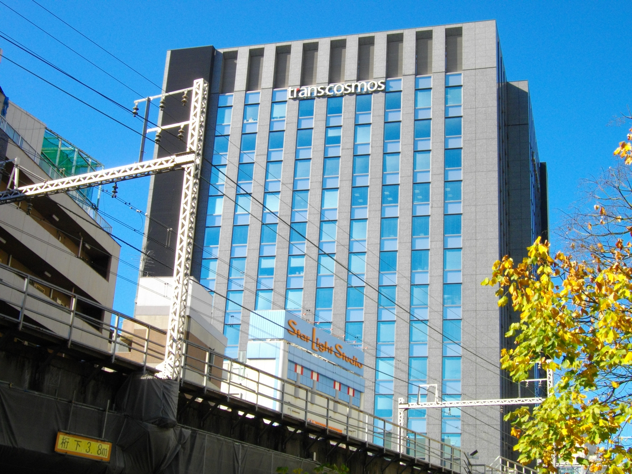 Transcosmos Head Office